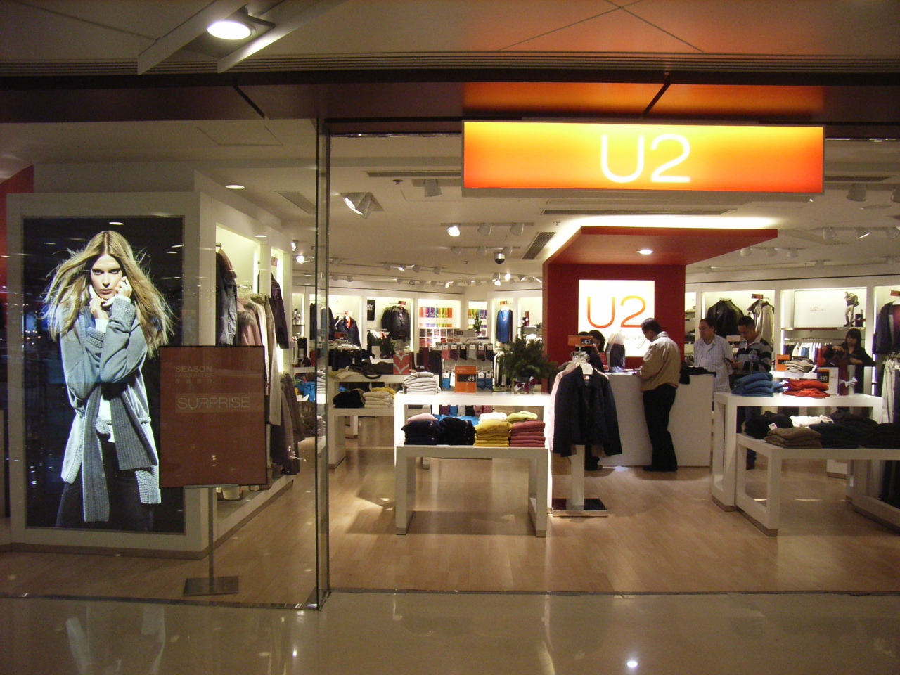 U2 Clothing shop in Telford Garden, Kowloon Bay, Hong Kong By Tim Parkson